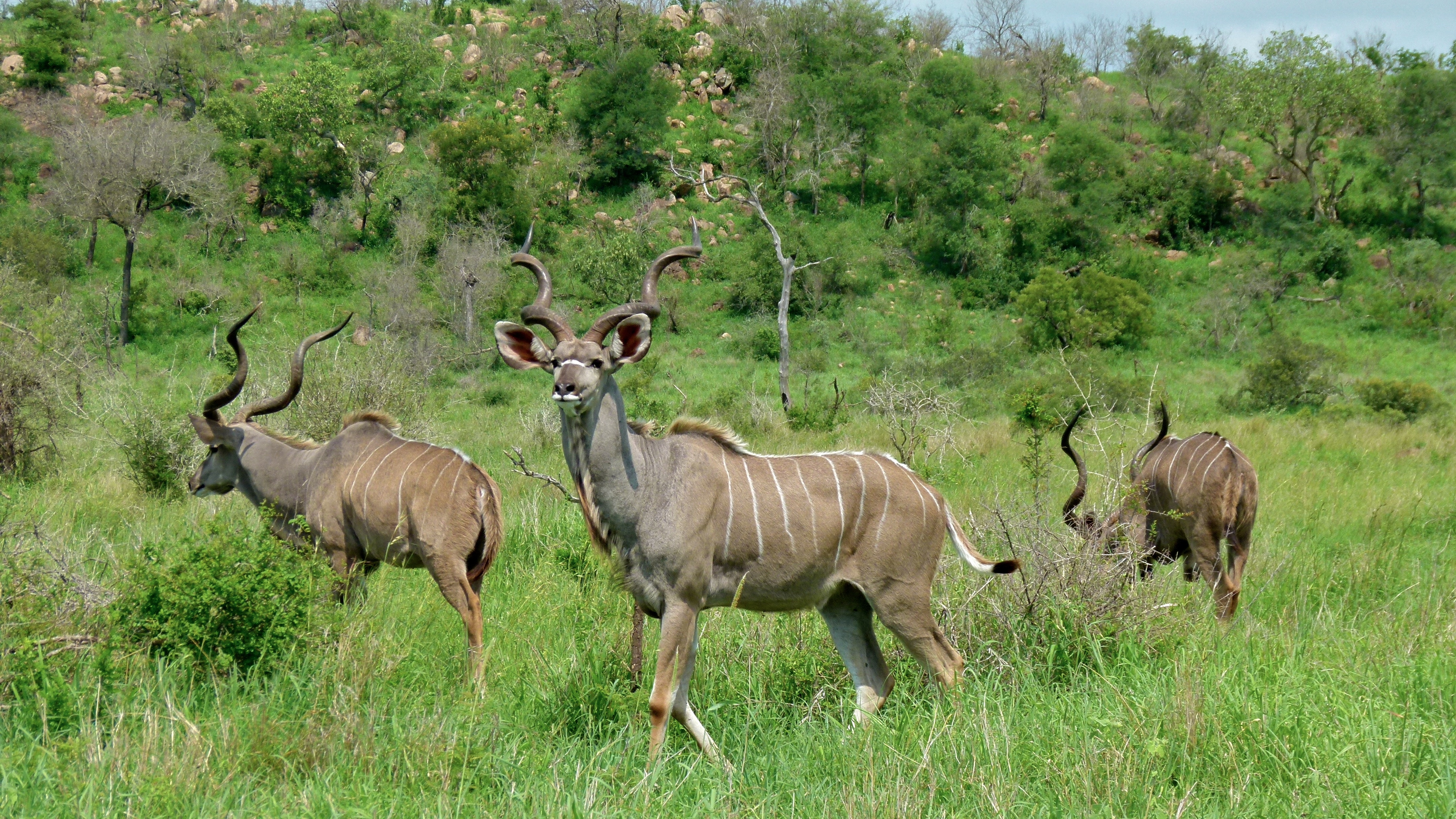 S35 North of Tshokwane, Kruger NP, SOUTH AFRICA